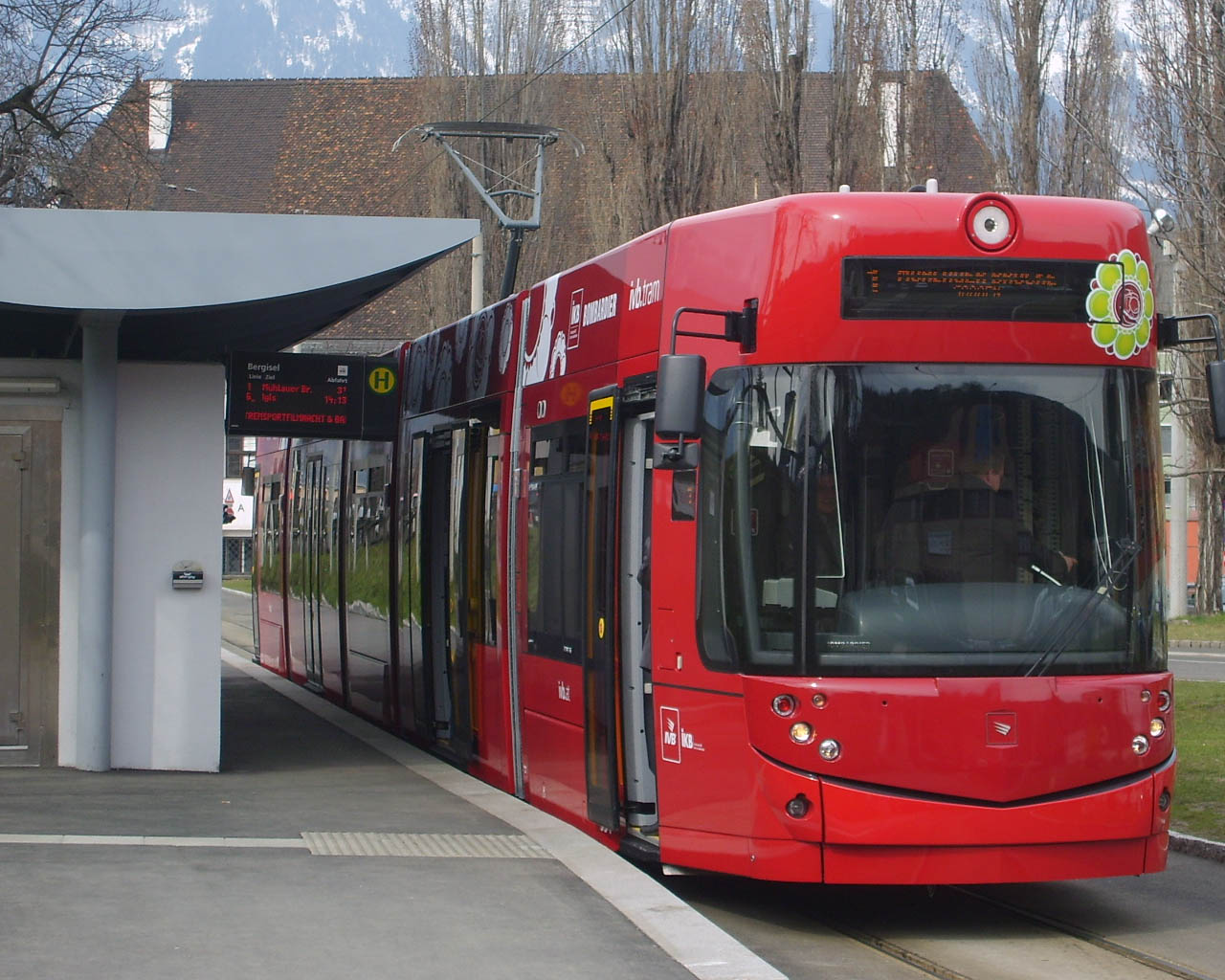 IVB tram car #351 of type 'Bombardier Flexity Outlook Innsbruck' as line 1 at Bergisel terminus